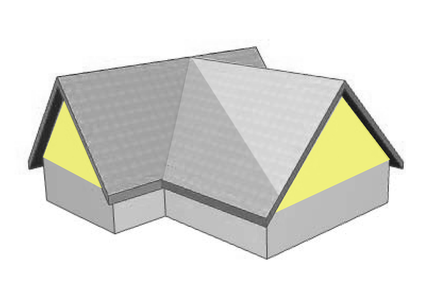 A 3-D diagram of a single-story house with a cross-gabled roof. Areas highlighted in yellow are the actual gables.